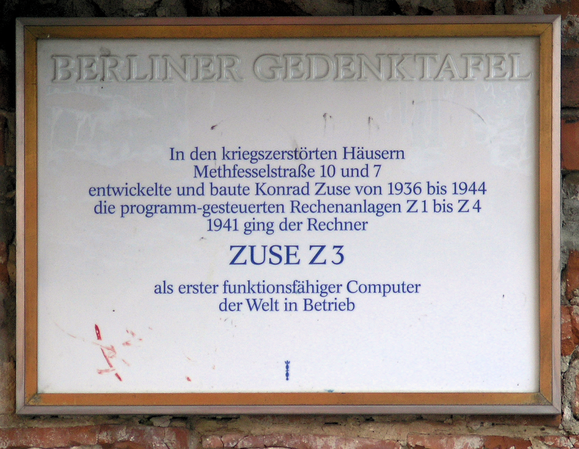 Berlin memorial plaque, Konrad Zuse, Methfesselstraße 10, Berlin-Kreuzberg, Germany